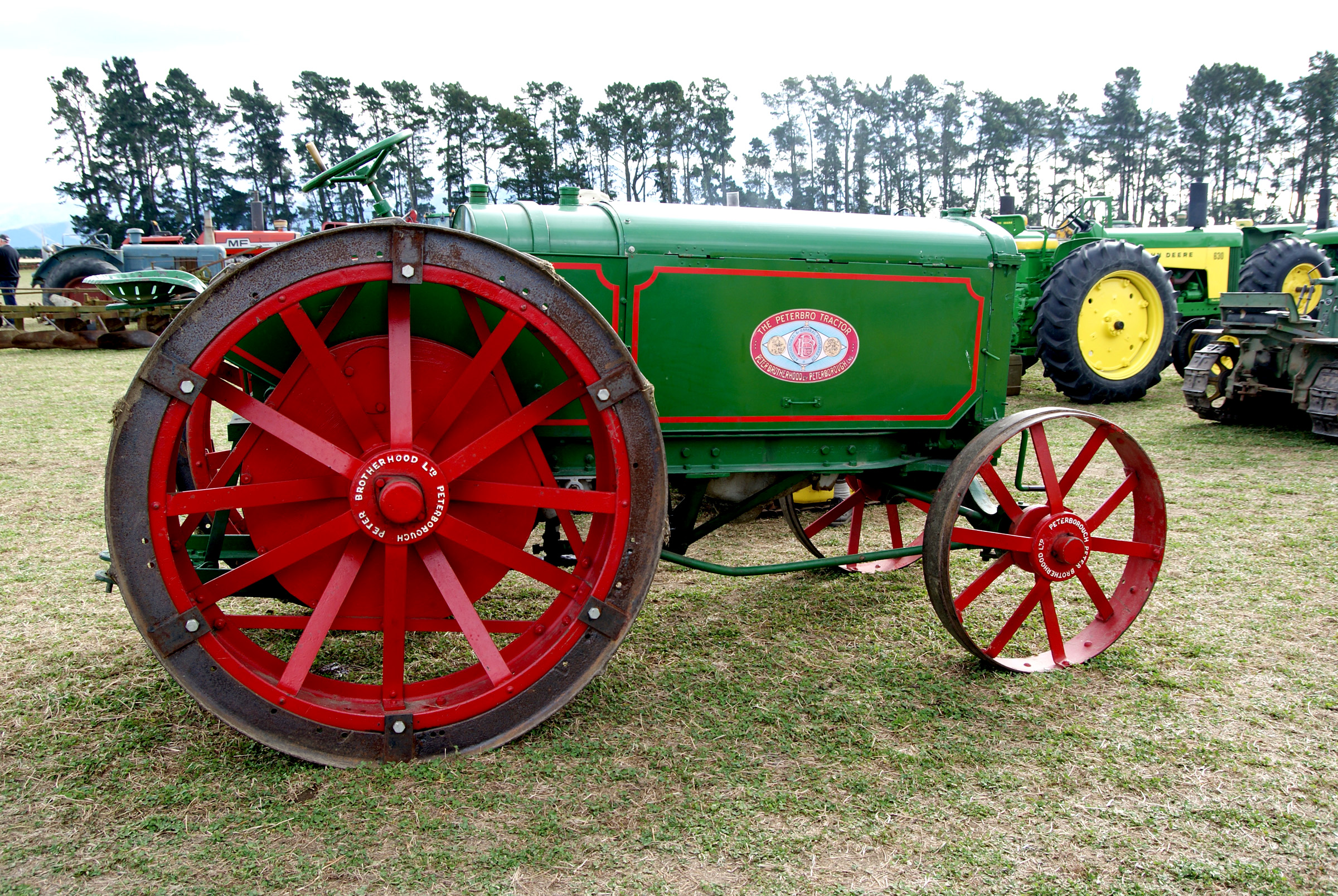 Peterbro Tractor The tractor used a complicated but powerful paraffin engine from Ricardo. The tractor developed 30 hp which was large for the British market at that time.